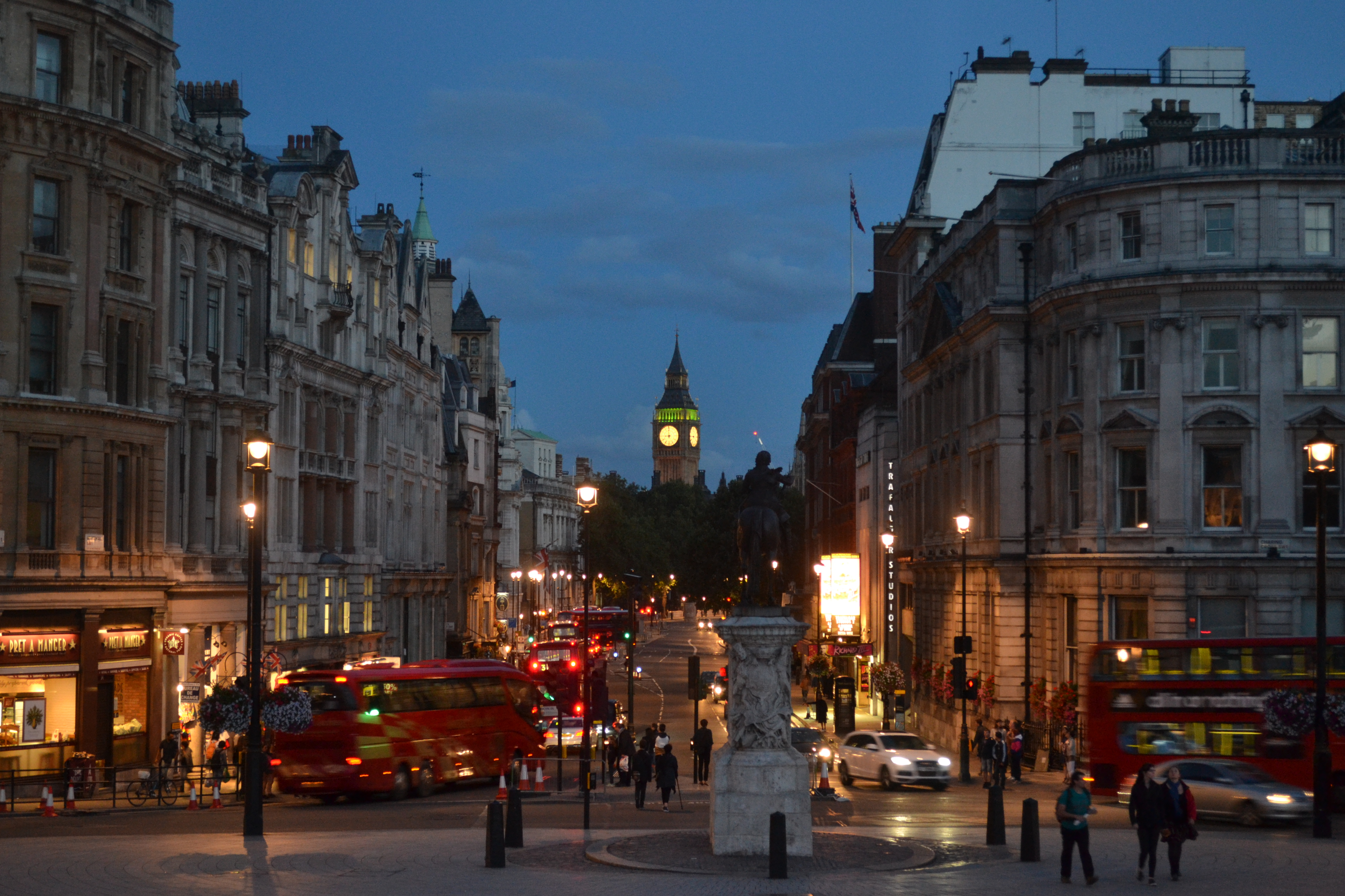 Remote view of Big Ben on center from Trafalgar Square.